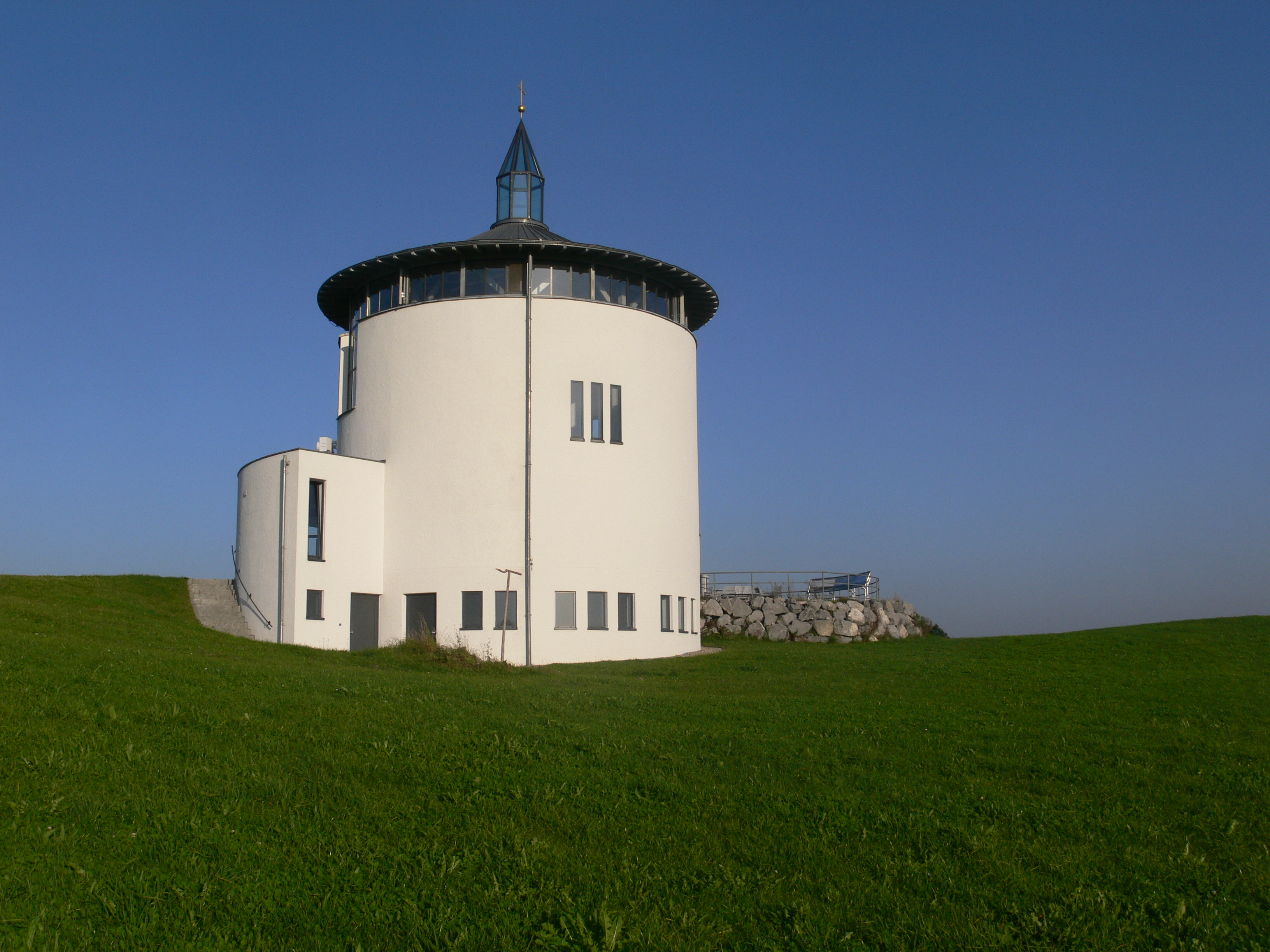 Highway Chapel St. Gallus, Leutkirch, Germany